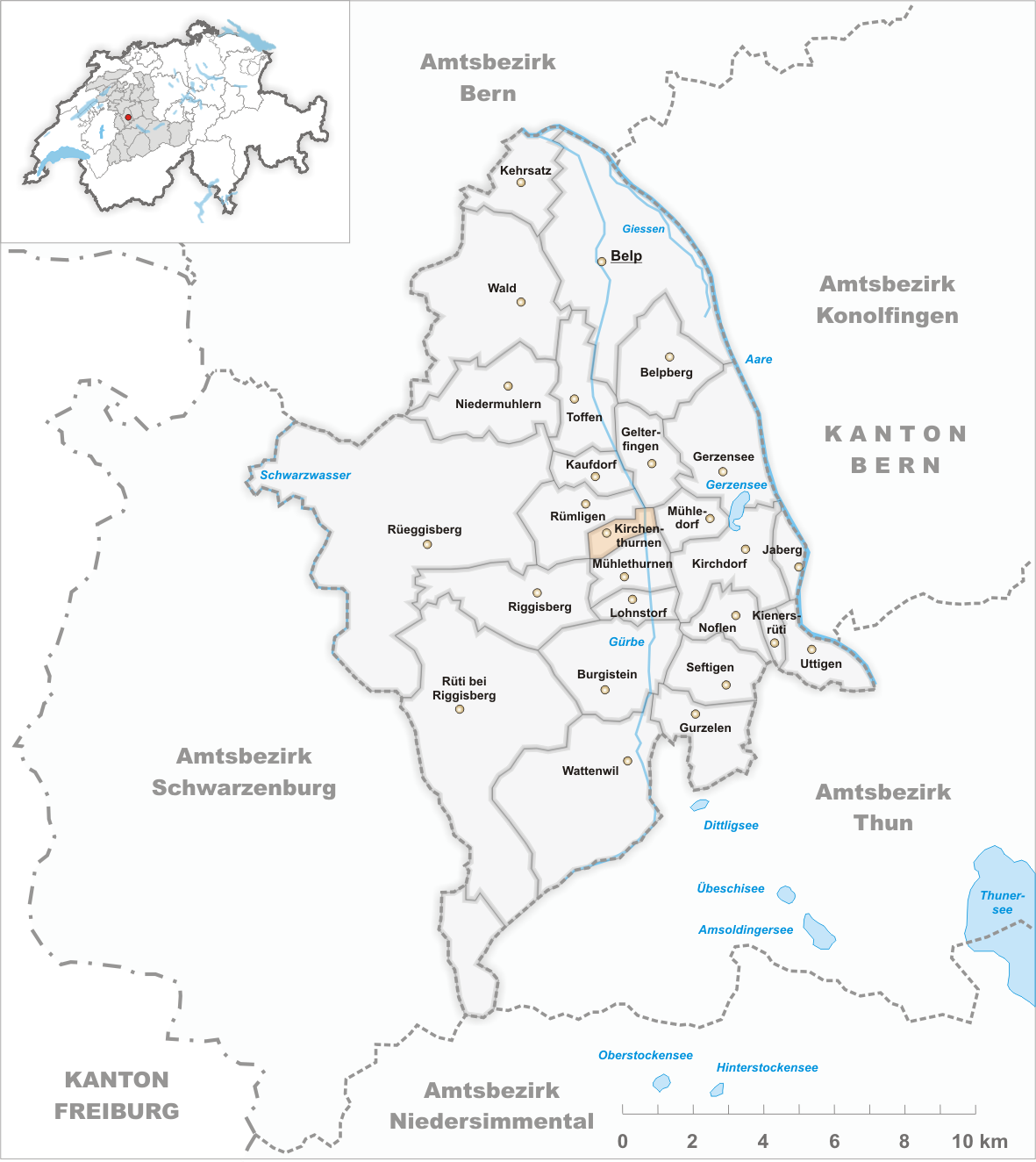 Municipality Kirchenthurnen